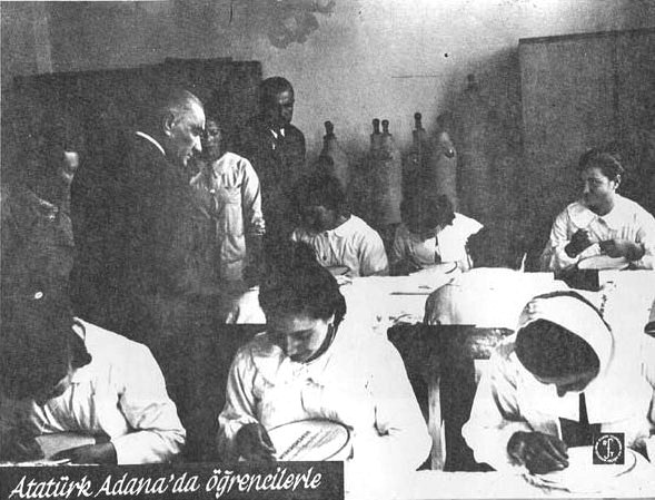 Mustafa Kemal Atatürk during one of his national tours. Kemal Atatürk (or alternatively written as Kamâl Atatürk, Mustafa Kemal Pasha until 1934, commonly referred to as Mustafa Kemal Atatürk; 1881 – 10 November 1938) was a Turkish field marshal, revolutionary statesman, author, and the founding father of the Republic of Turkey, serving as its first President from 1923 until his death in 1938. He undertook sweeping progressive reforms, which modernized Turkey into a secular, industrial nation. Ideologically a secularist and nationalist, his policies and theories became known as Kemalism. Due to his military and political accomplishments, Atatürk is regarded as one of the most important political leaders of the 20th century.